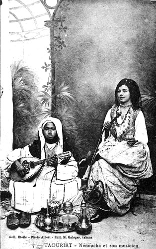 Historical photographs of Moroccan women.